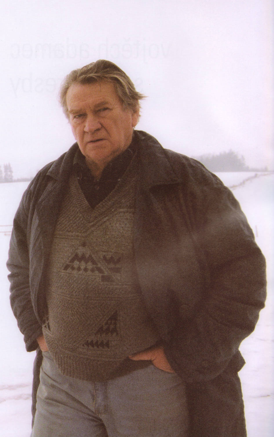 portrait of sculpturor vojtech adamec